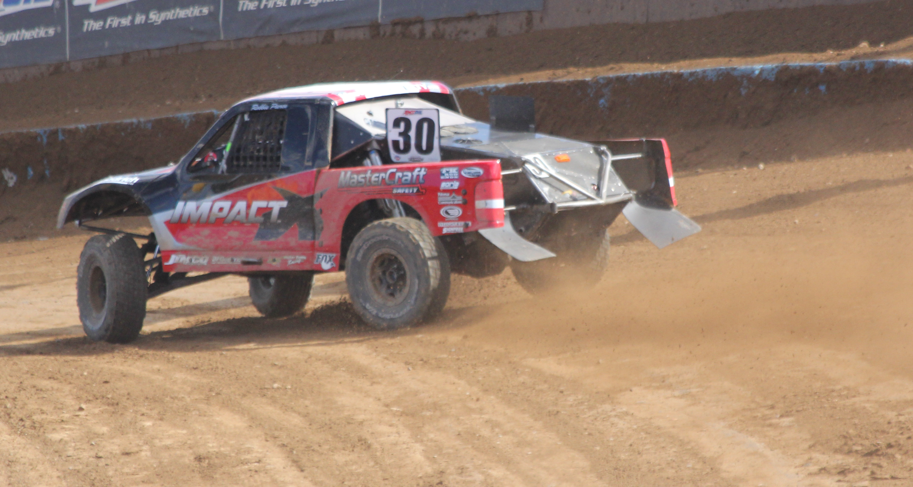 The Pro 2 Traxxas TORC Trophy Truck of Robbie Pierce at Crandon International Off-Road Raceway. He normally competes on the West Coast of the United States in LOORS.